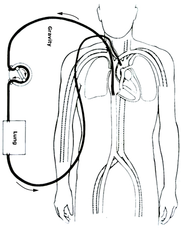 Right internal jugular vein drainage and right carotid artery infusion.